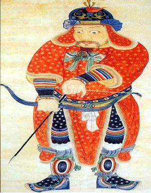 General Yun Kwan,Goryeo's General